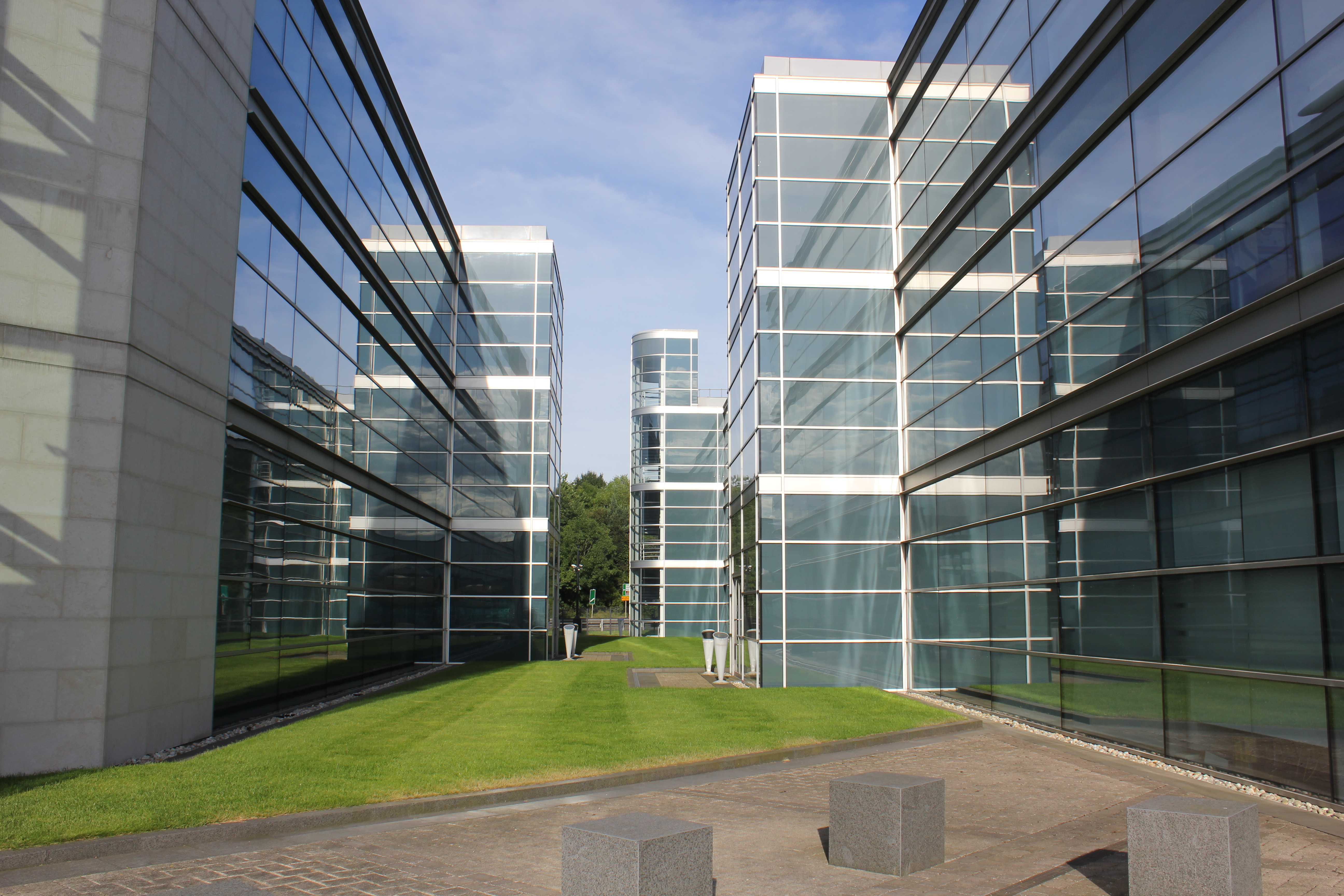 A portion of White Rose Office Park, Leeds, as seen in July 2014.